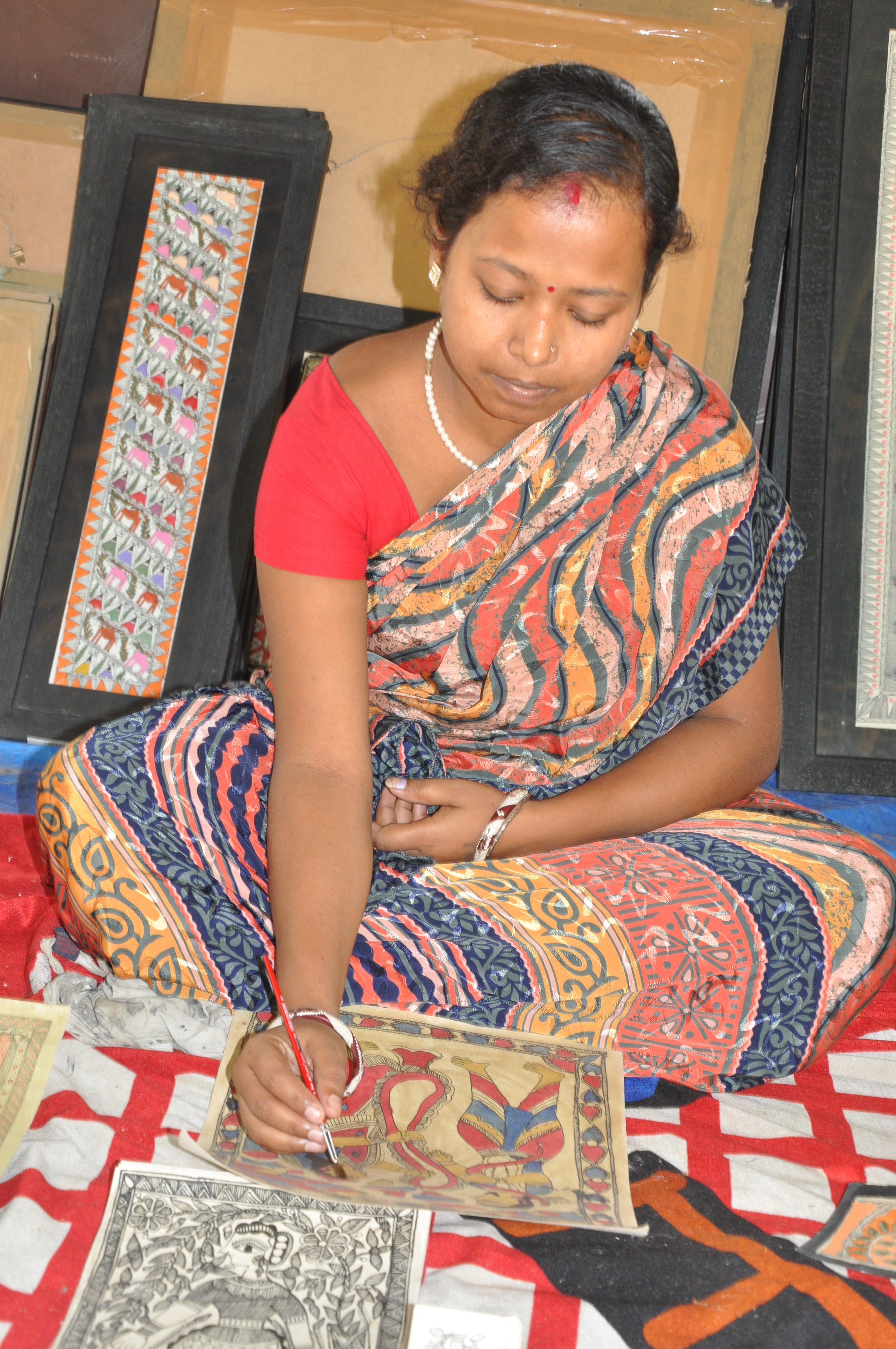 crafts museum, new delhi